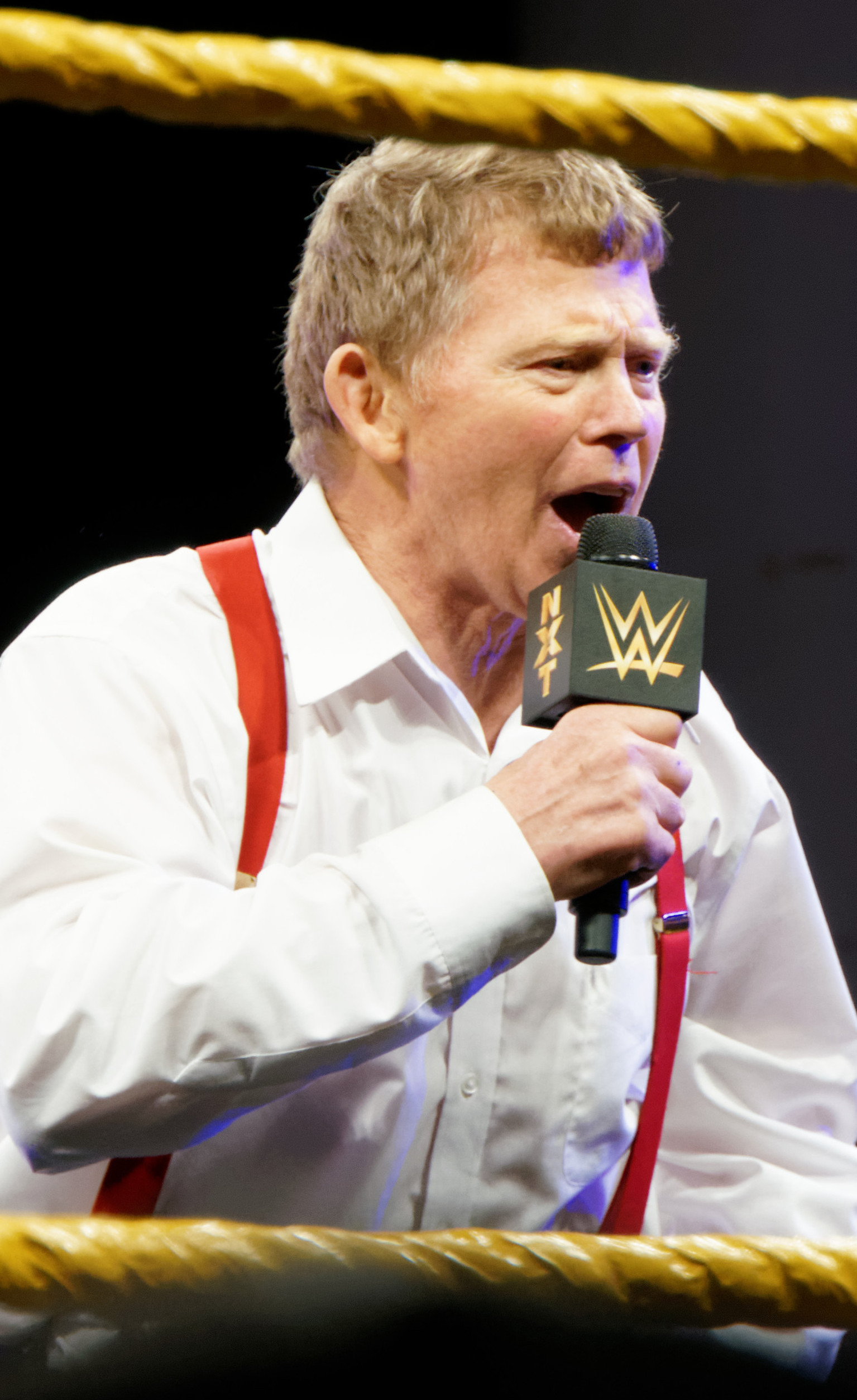 Bob Backlund at WrestleMania Axxess in April 2014. Cropped from original image.